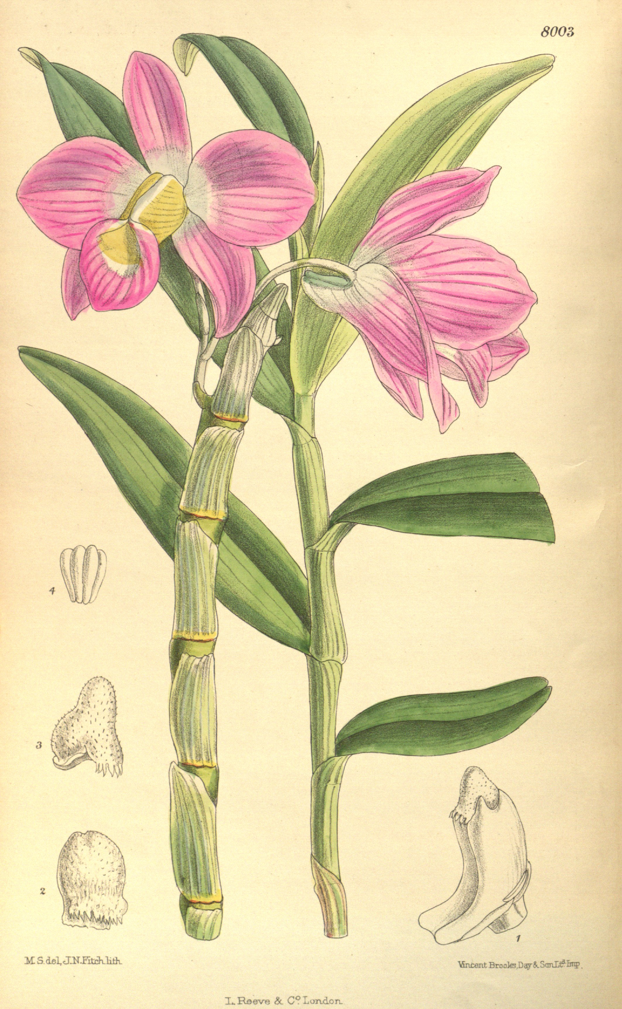 Illustration of Dendrobium regium